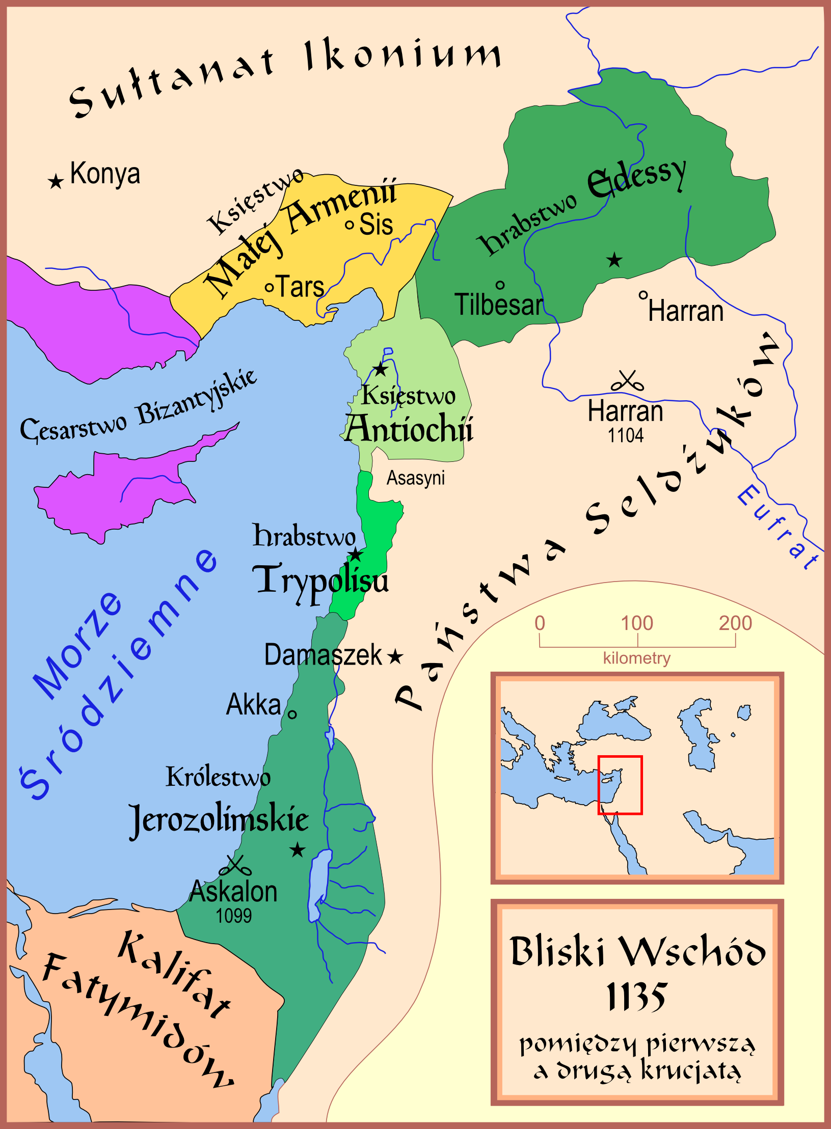 A political map of the Near East in 1135 CE.